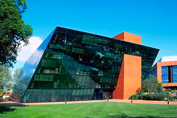 The 'Blue Leaning' office block, home to Halifax Bank of Scotland (HBOS), designed by GMW Architects